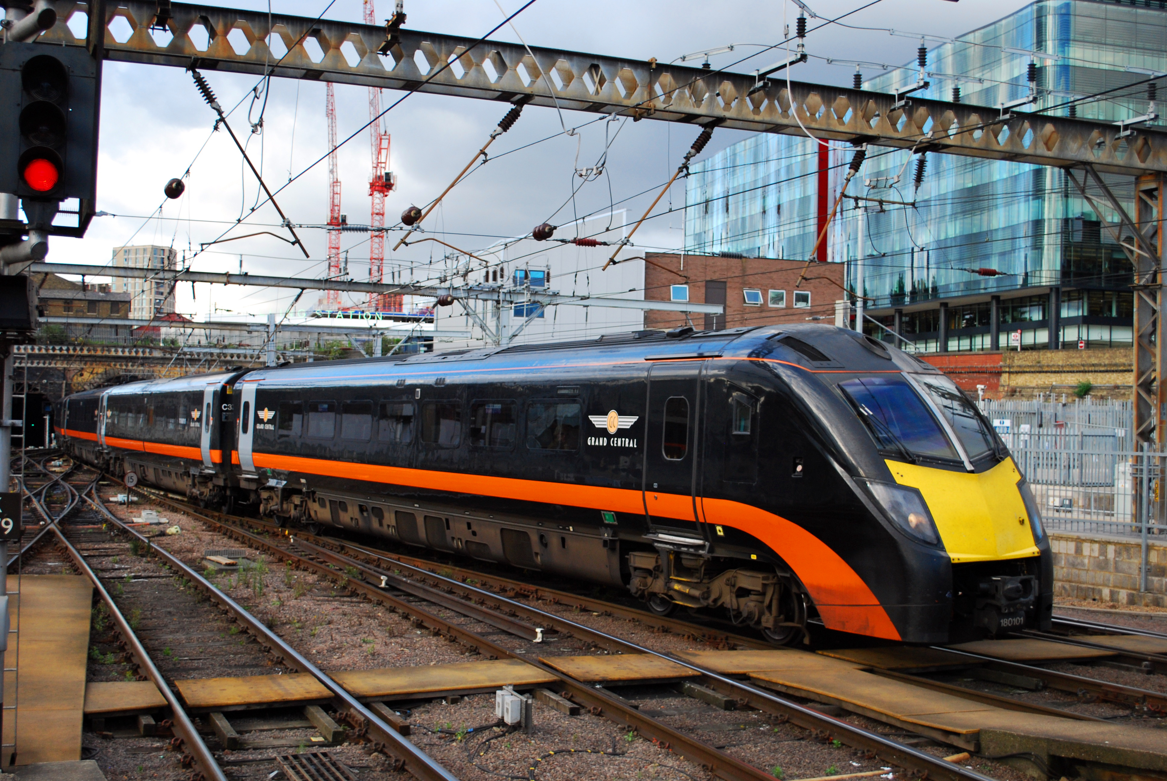 Alstom (Birmingham) Class 180 "Coradia" (ex-"Adelante") 5-car dmu No.180 109 of Grand Central in its livery arriving at King's Cross on a service from Sunderland, 08/12.